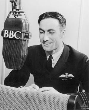 Squadron Leader Charles Scherf DSO DFC & Bar, an Australian flying ace of the Second World War, describes his experiences over the BBC radio.